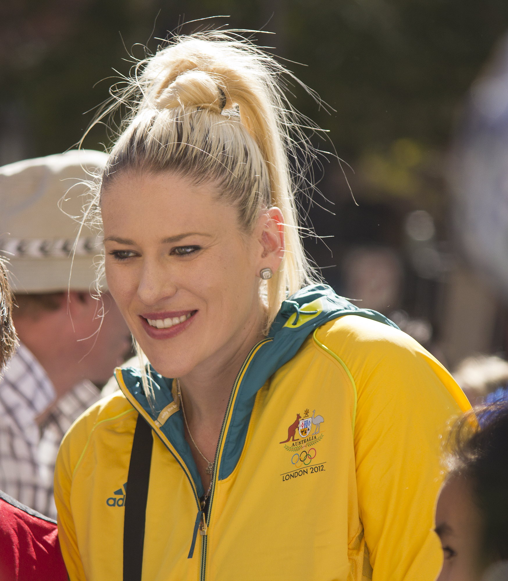 Lauren Jackson at the Welcome Home parade in Sydney.